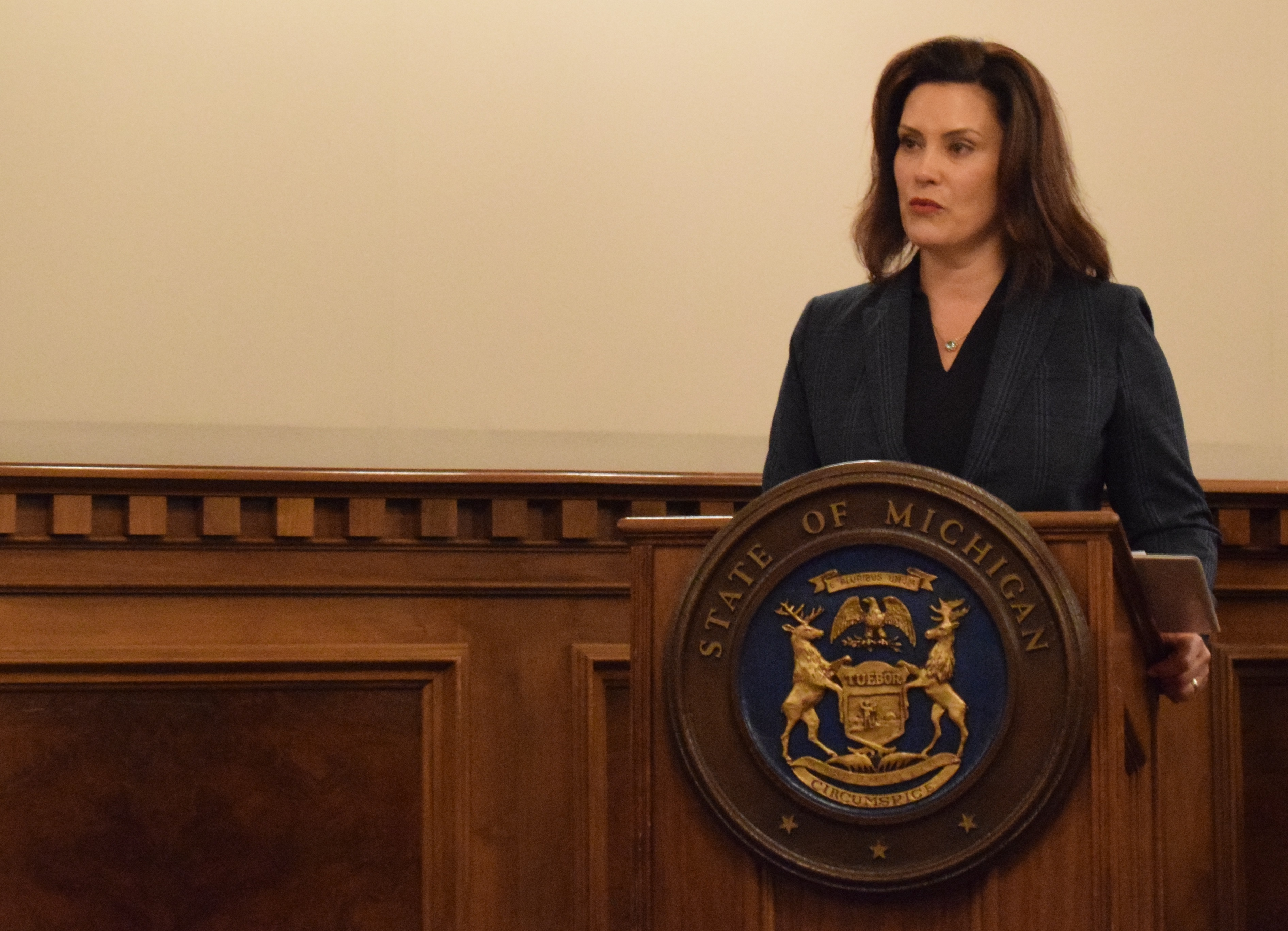 Gov. Gretchen Whitmer speaks during the adjutant general change of responsibility ceremony, Lansing, Mich., Jan. 1, 2019 (Air National Guard photo by 1st Lt. Andrew Layton/released).